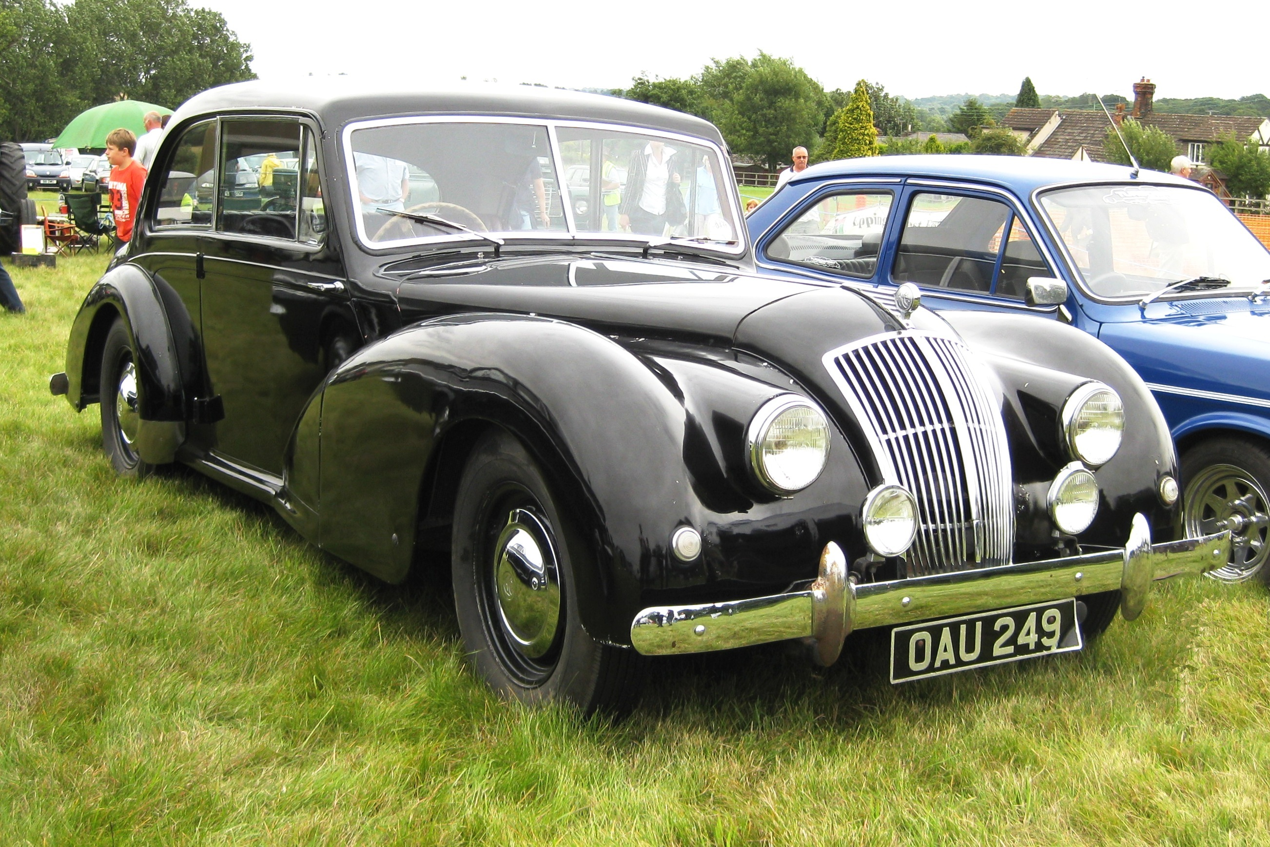 AC 2-litre 2-door in a field in Essex